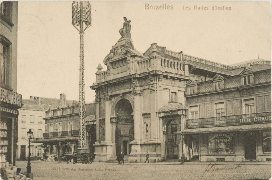 Postcard of the covered market of Ixelles (1879-1971), edited by Wilhelm Hoffmann AG (nr. 3311)